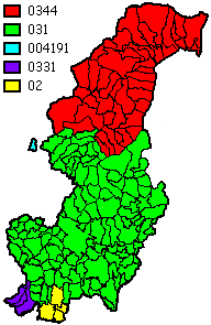 Map of telephone area codes of the province of Como